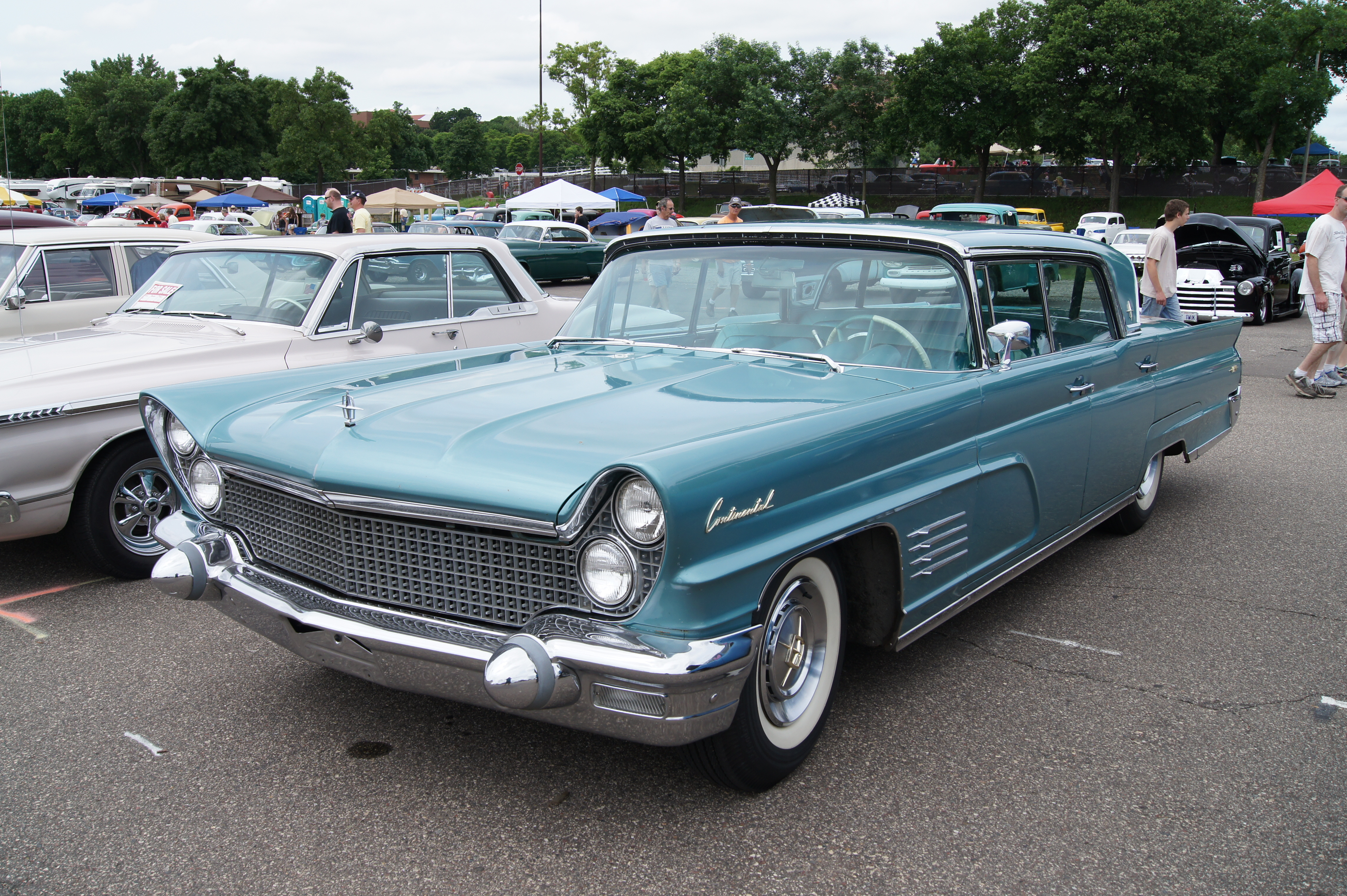 There is controversy if Continental and Lincoln were separate makes from 1958-1960. I went to my library and pulled out the book “American Cars 1946-1959″ by J.”Kelly” Flory Jr. and found Lincoln and Continental listed separately. However each section includes this statement “The Continental’s all-new body styling was also shared with the Lincoln, and in fact during the model year (1958) the Continental Division would be brought under the umbrella of the newly created Mercury-Edsel-Lincoln (or MEL) division. This was a cost-saving move as the Edsel was not proving to be money maker that Ford thought it would be, it not only saved expenses on the Edsel but also allowed marketing of the Lincoln and Continental to be combined. From 1958 through the Continental’s official demise as a separate entity in 1960, the Lincoln and Continental shared styling and power-trains, and were generally advertised together. Also, beginning with the 1958 model year, serial numbers were kept as a combined unit, with the code 4 designating the Lincoln division for both Lincoln and Continental. However, for this reference the Continental will continue to be kept as a separate division.” Wow! crystal clear now :) and it reminded me why I usually avoid this territory. - See more at: MSRA “BACK TO THE 50′s” 40th ANNIVERSARY June 21-23, 2013 State Fairgrounds St. Paul Minnesota More Car Pictures